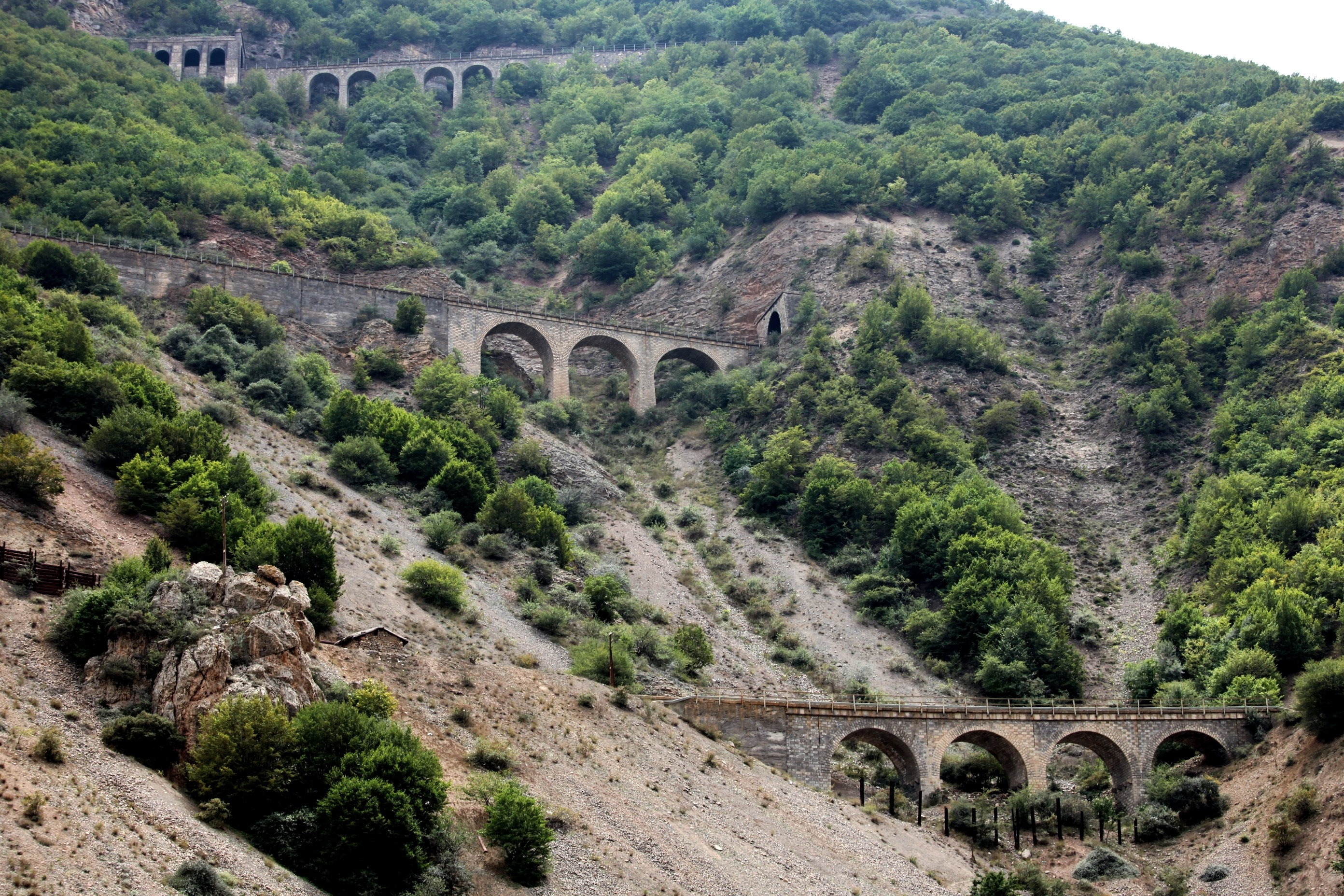 Tehran - Sari Railway Dowgal